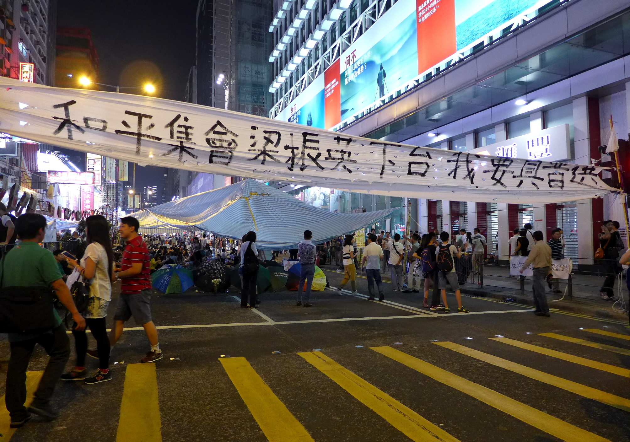 Umbrella Revolution Banner in Nathan Road